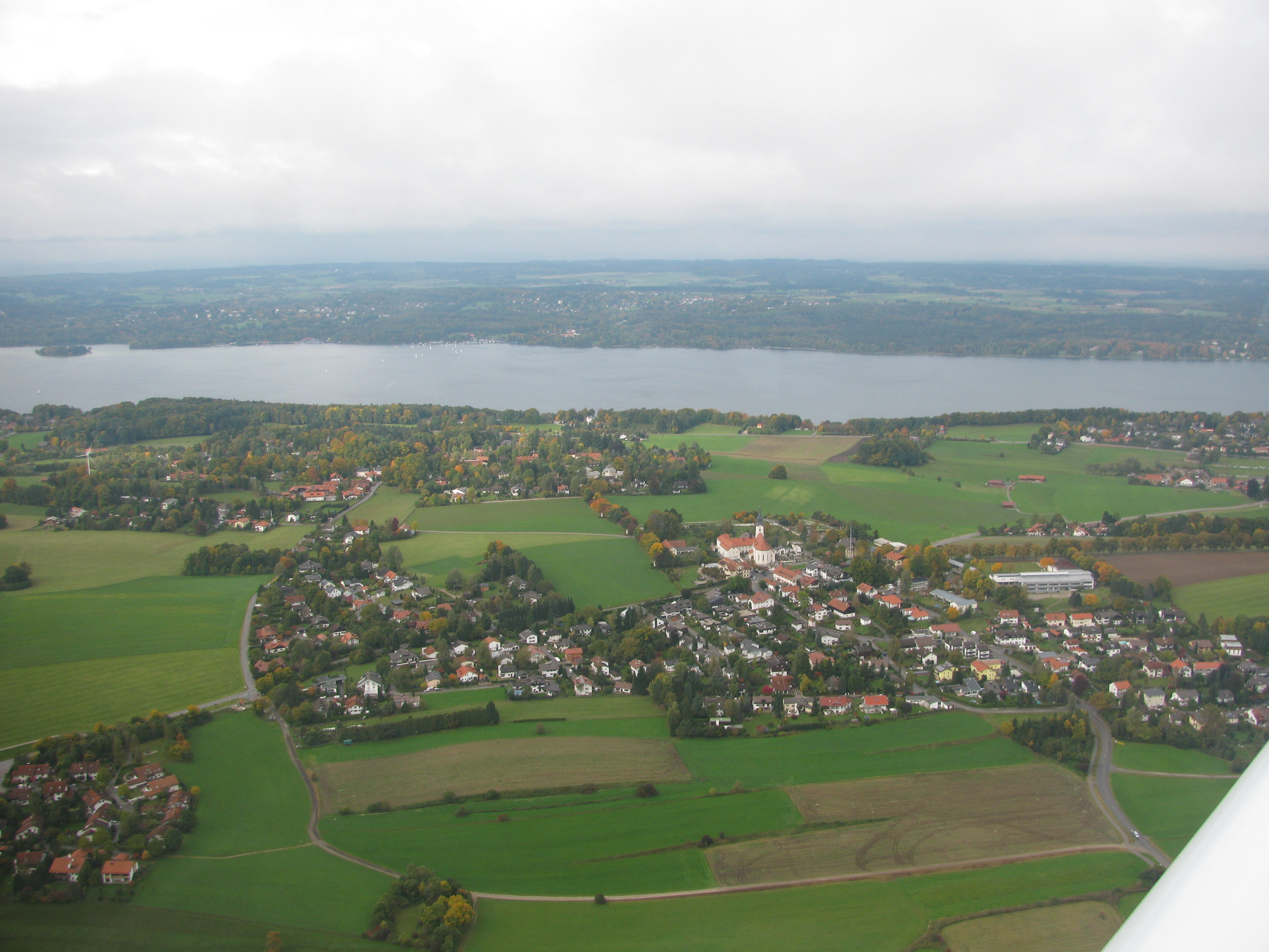 View from a small aircraft towards Aufkirchen, Berg and Lake Starnberg